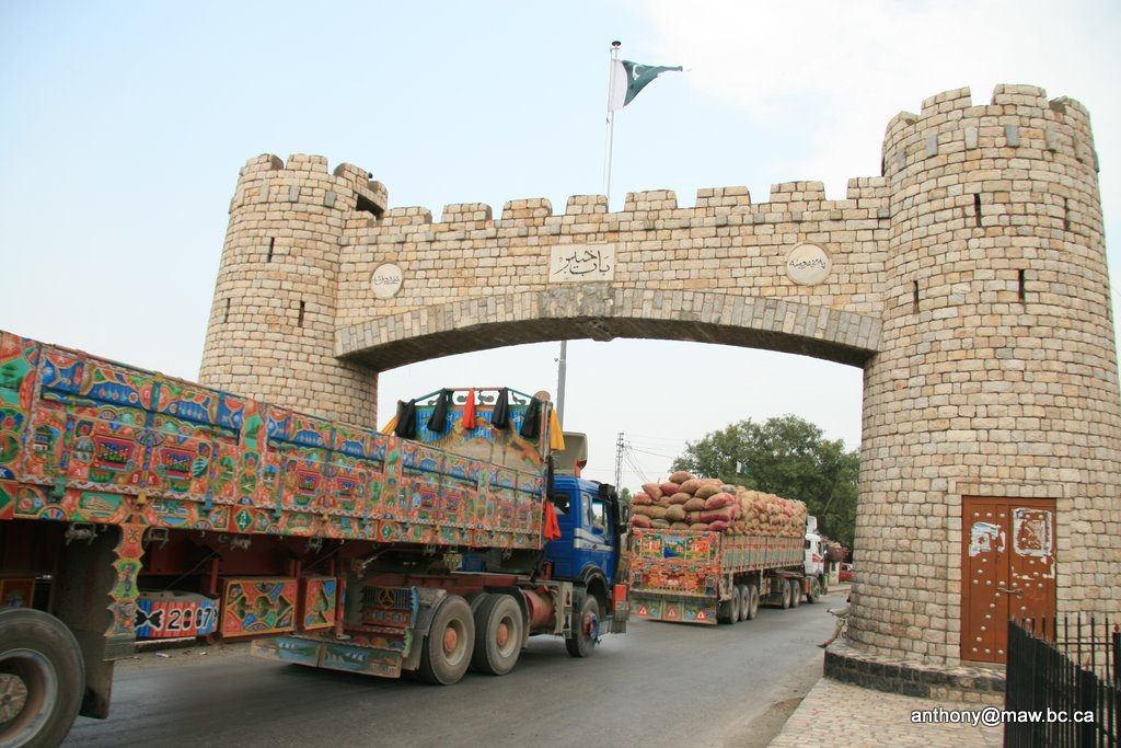 Khyber Gate (Baab e Khyber) on Jamrud Road in Yaghistan looking eastbound towards Peshawar.